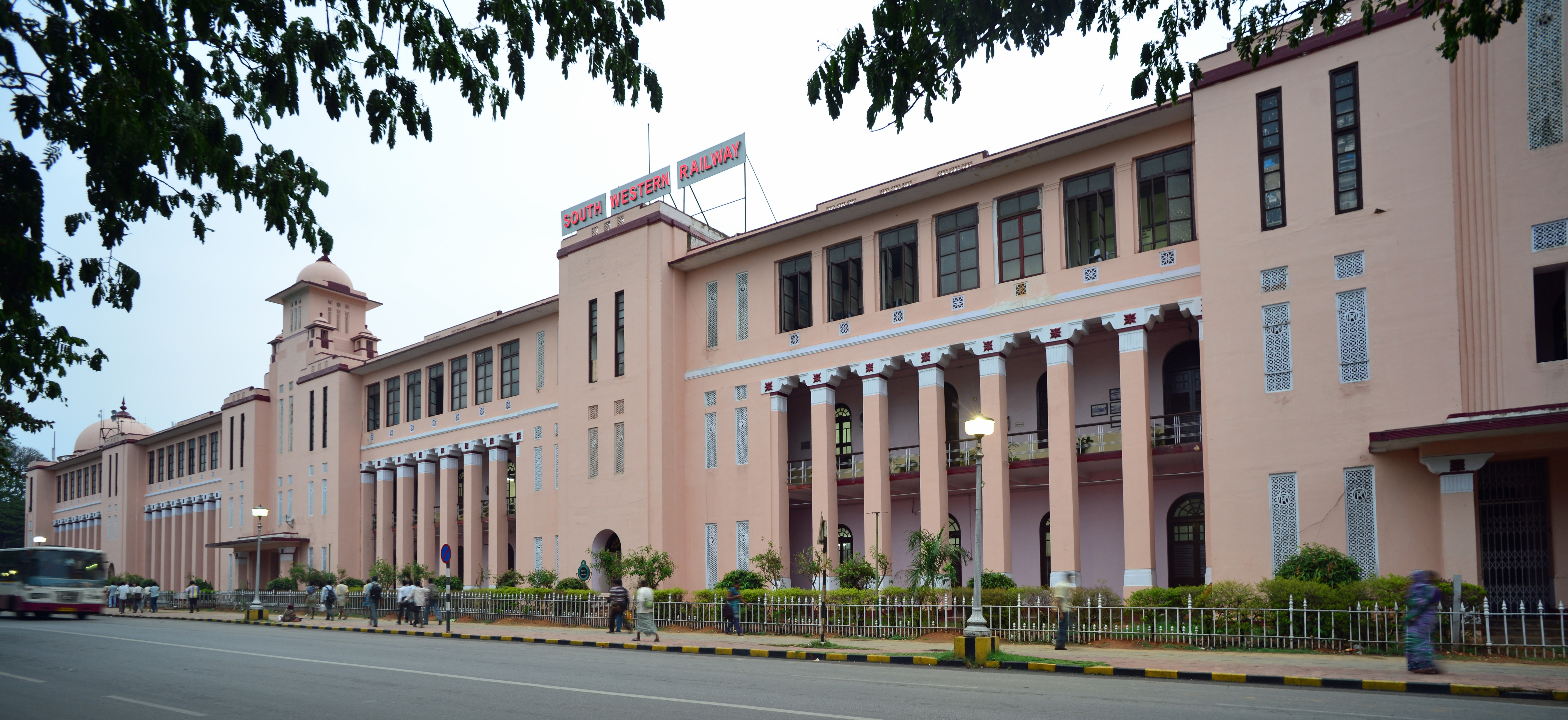 South Western Railway Building, Mysore